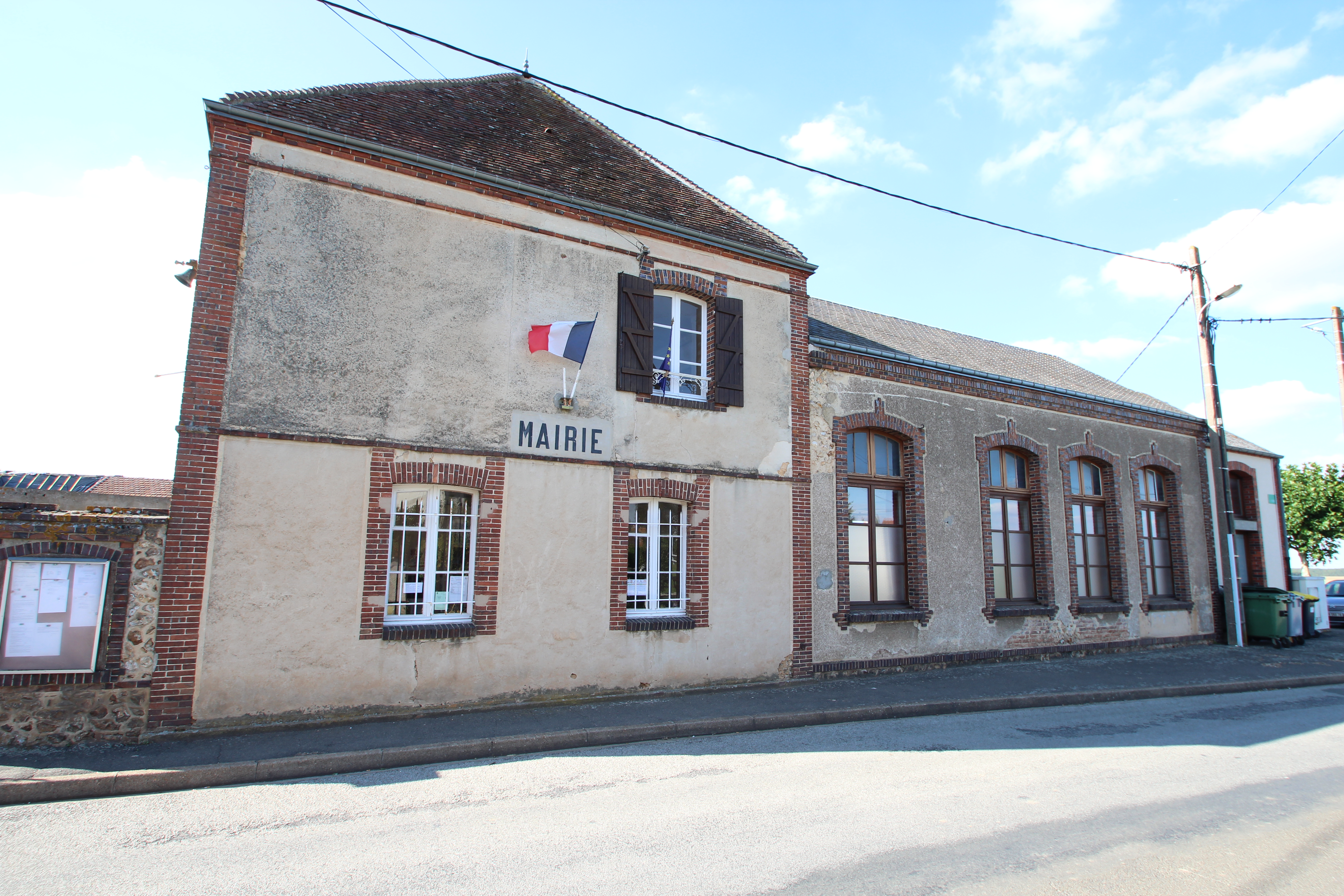 Town hall of Saint-Sauveur-Marville, France. Object location48° 35′ 48.21″ N, 1° 16′ 49.75″ E